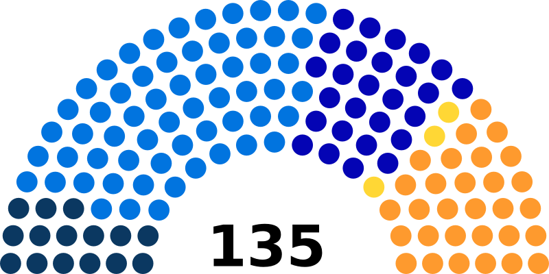 Seats diagramme of Swiss National Council (1872)